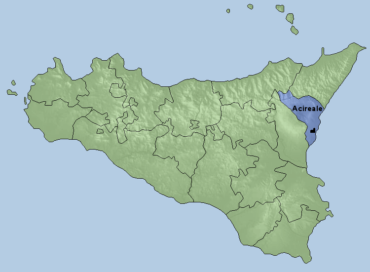 Map of the diocese of Acireale (^^: Cathedral of a metropolitan diocese, –^: Cathedral of a suffragan diocese, ^–: Co-cathedral)